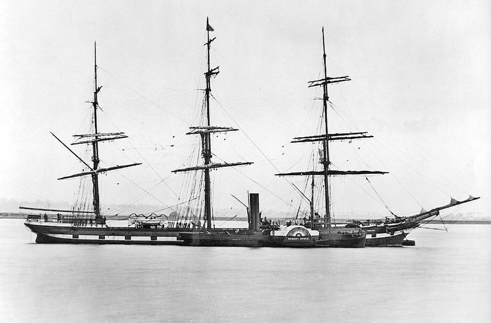 "Loch Ard" (1873-1878) with tugboat "Robert Bruce" (1865-1910. The "Robert Bruce" was acquired by William Watkins, London in 1872. She was operating at "The Downs (ship anchorage)" off Kent, during the lifetime of the "Loch Ard".